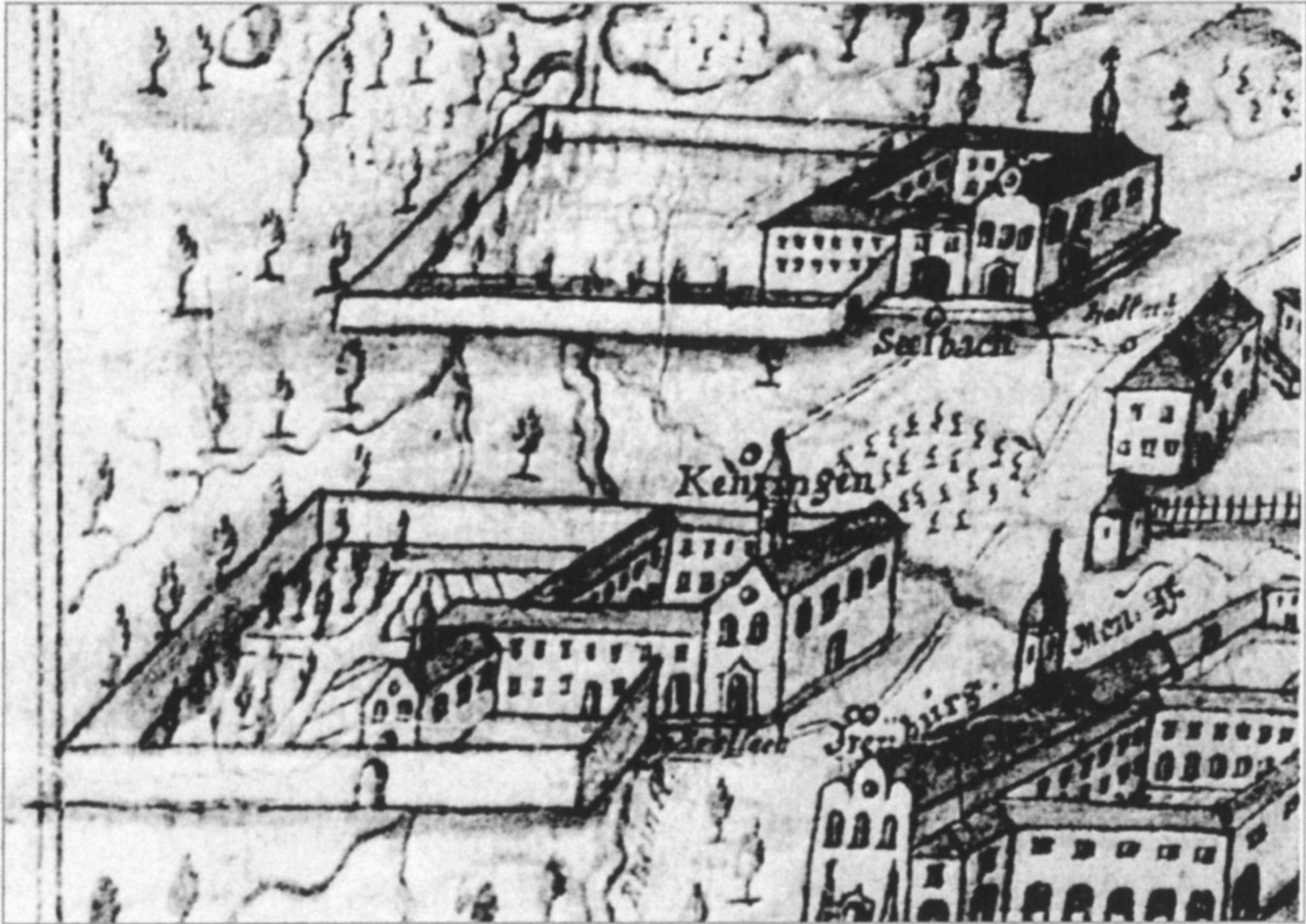 map showing the Franciscan monatery in Kenzingen, Baden-Württemberg, Germany, 18th century